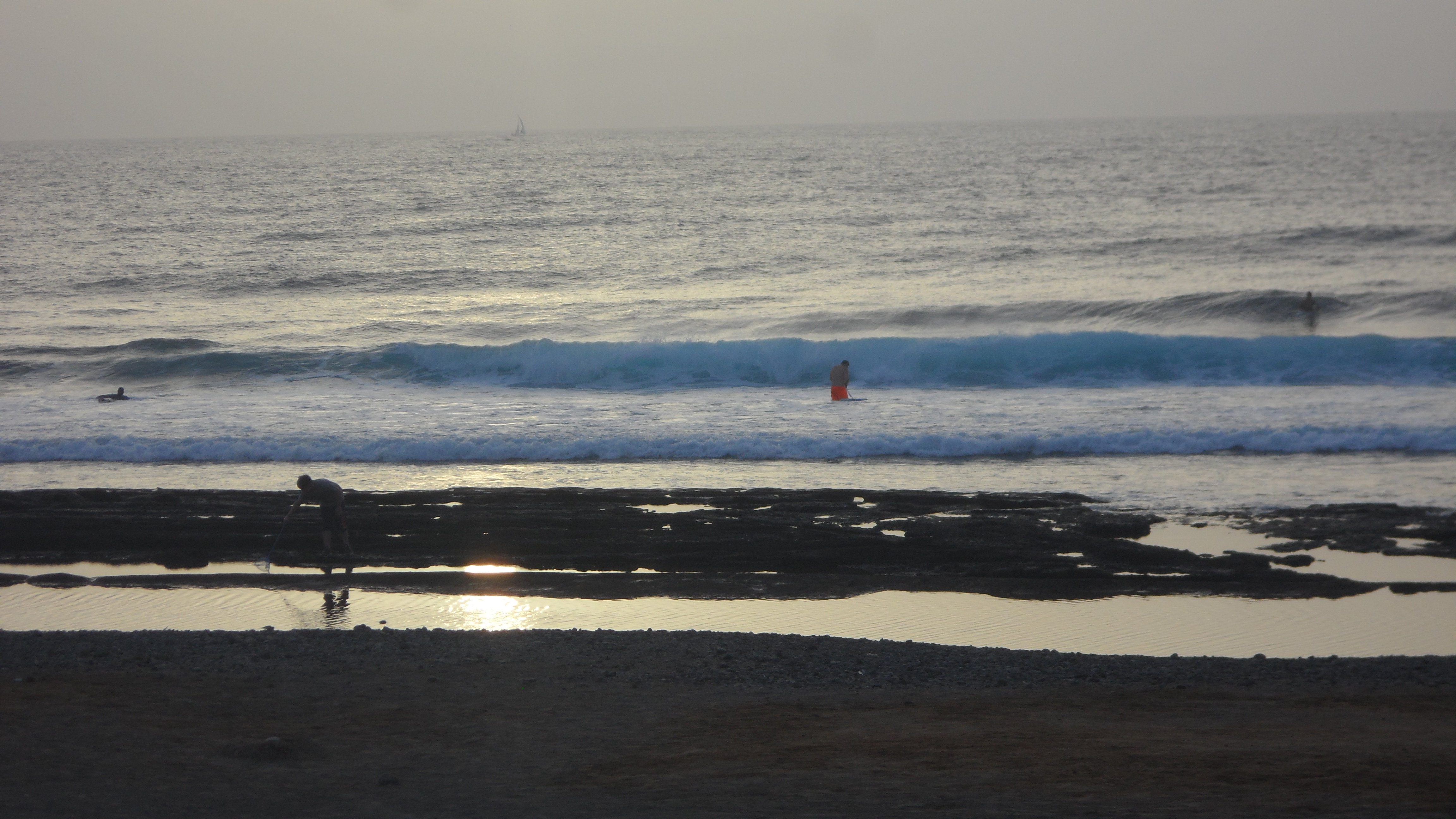 Evening sunset in Playa De Las Americas Tenerife